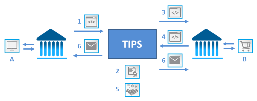 instant payment processing flow